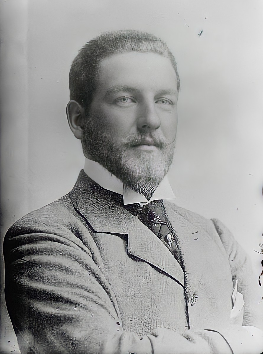 Philippe, Duke of Orléans (1869 - 1926), claimant to the throne of France from 1894 to 1926. Library of Congress, Prints and Photographs Division, Washington, D.C. 20540 USA, General information about the Bain Collection is available at